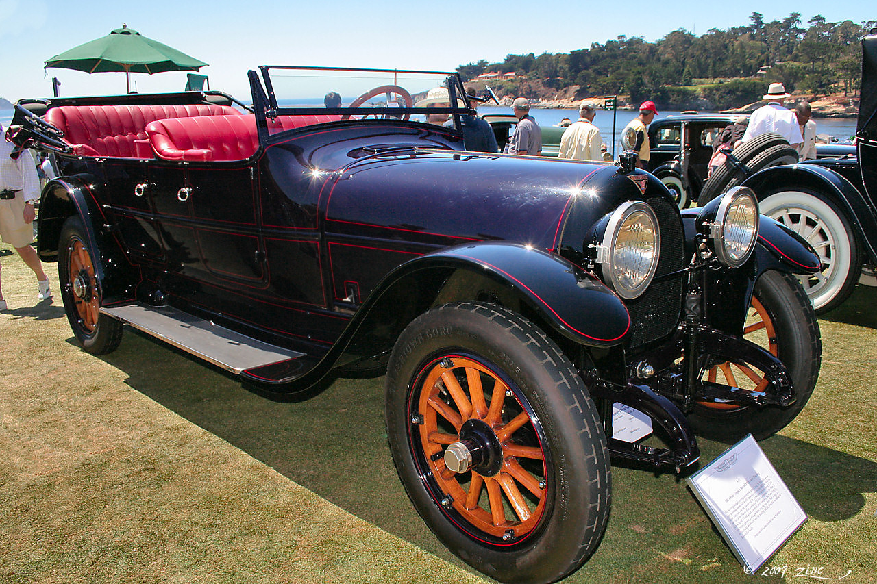 1917 Simplex Crane Model 5 Brewster TouringPebble Beach Concours dElegance 2007